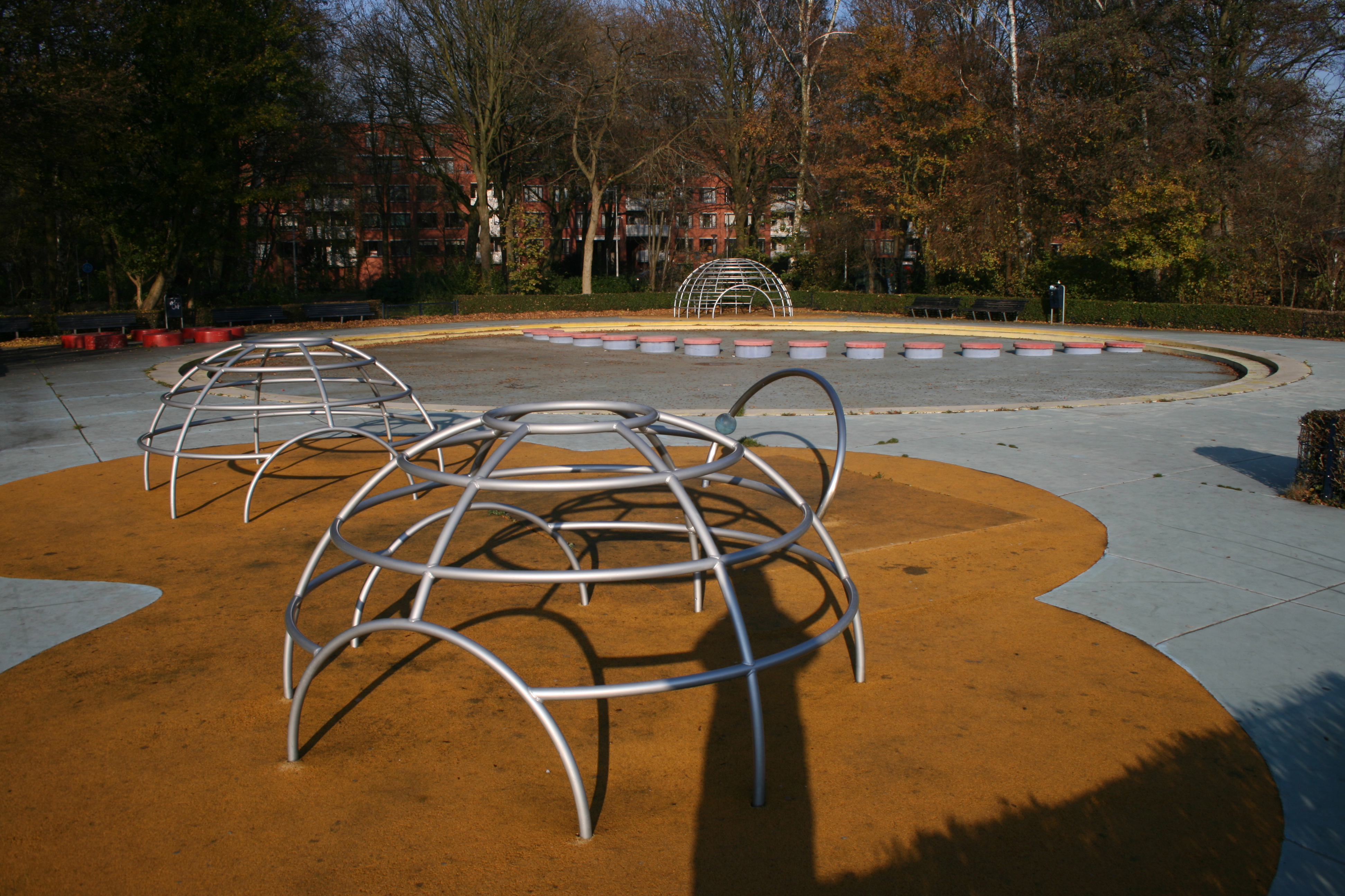 The Eendrachtspark is a park in Amsterdam.